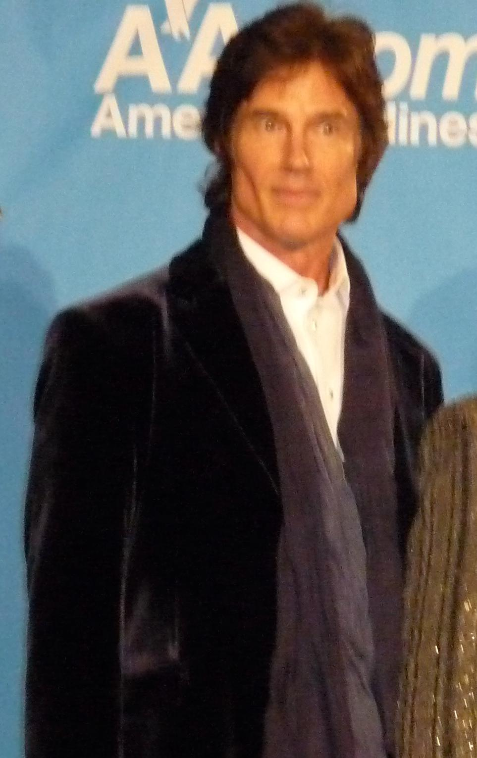 Actor Ronn Moss at 2009 Daytime Emmy Awards.